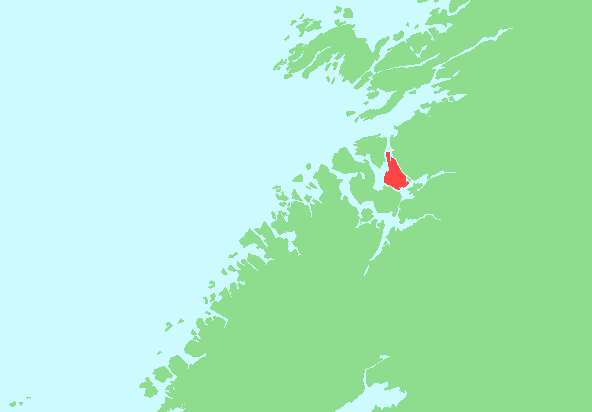 Locator map of Elvalandet, Nord-Trøndelag, Norway